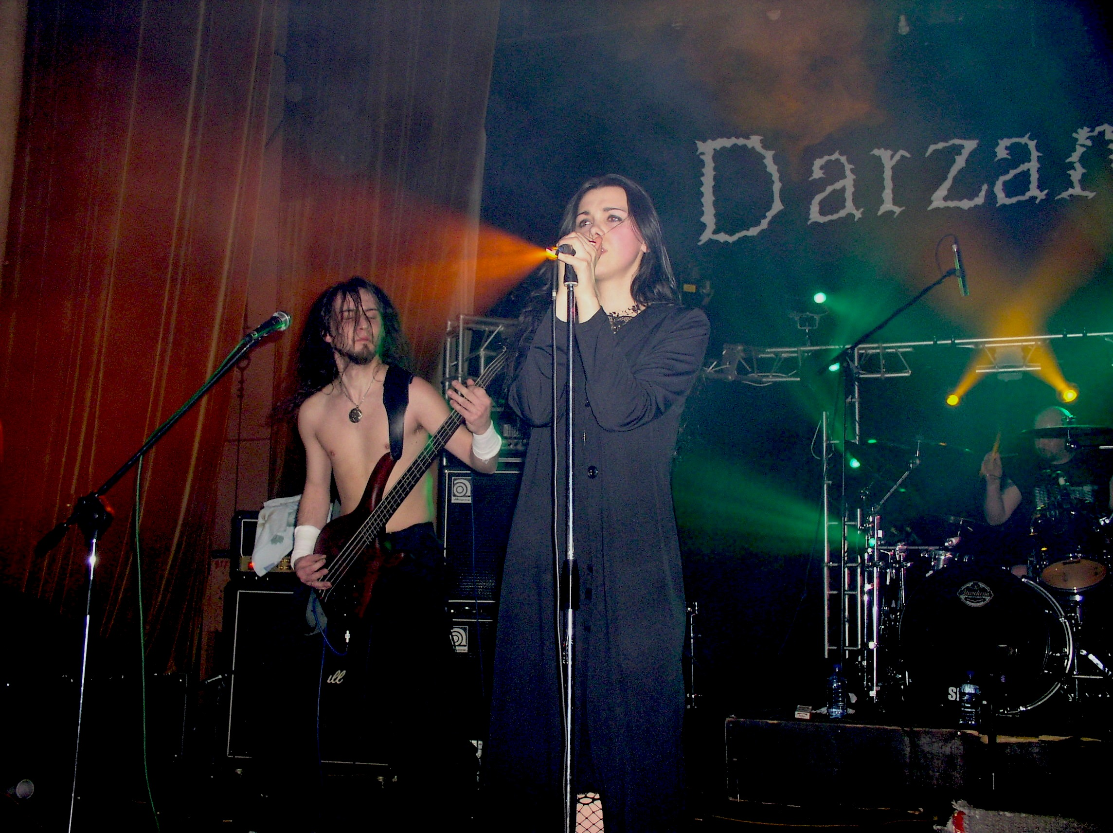 Daamr, Nera and Golem from Darzamat on Moscow After Midnight in 2004.